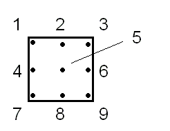 Summary Image showing method for marking likely numbers in a Suduko square by the placing of pencil dots. 10:20, 13 March 2006 Lumos3 246x190 (2,370 bytes) (Amended to "telephone keypad" convention Self made ~~~~~) 13:31, 9 March 2006 Lumos3 208x190 (2,319 bytes) (A method for marking likely numbers in a Suduko square by the placing of pencil dots.) 13:19, 9 March 2006 Lumos3 1024x1920 (5,095 bytes) (Image showing method for marking likely numbers in a Suduko square by the placing of pencil dots. )